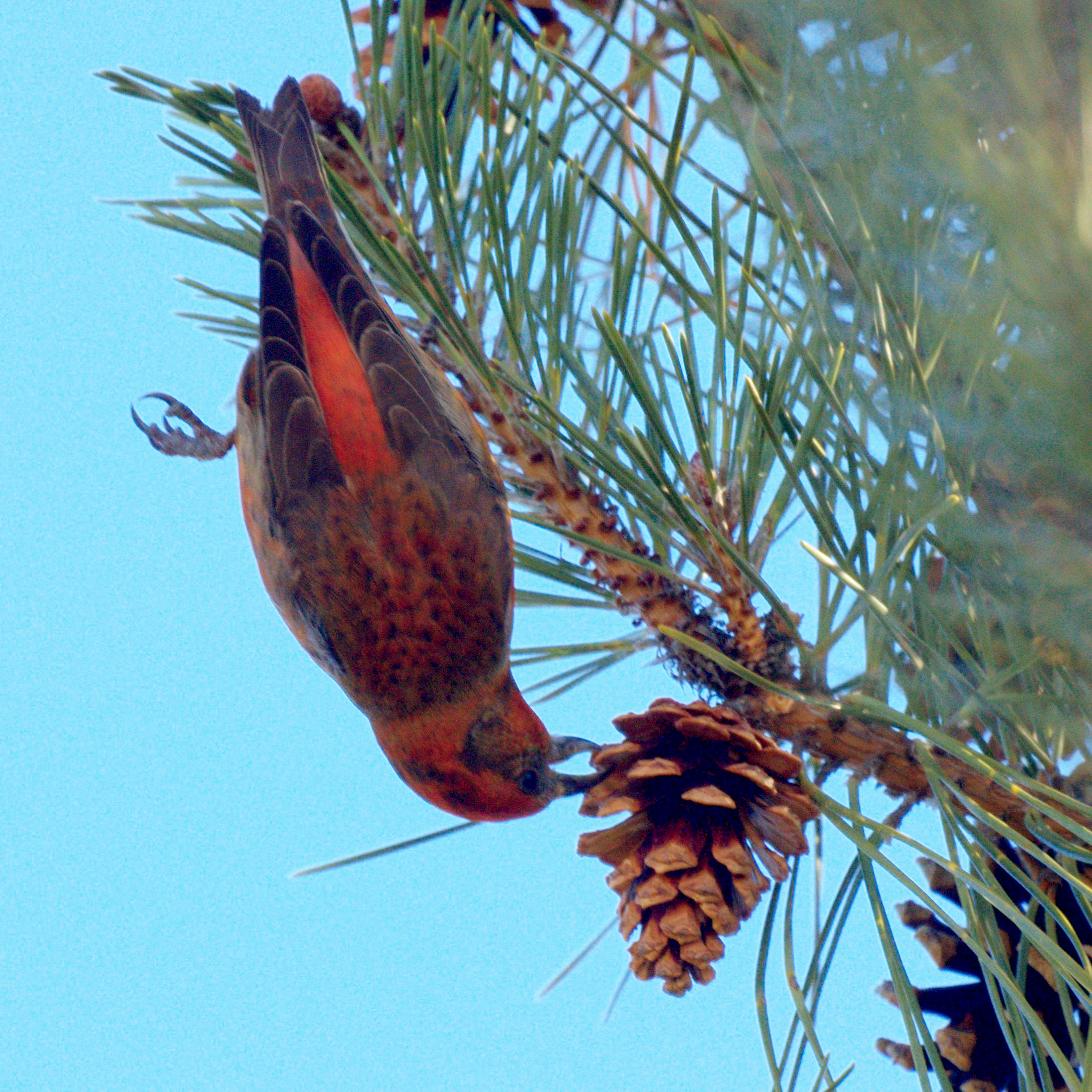 Red Crossbill